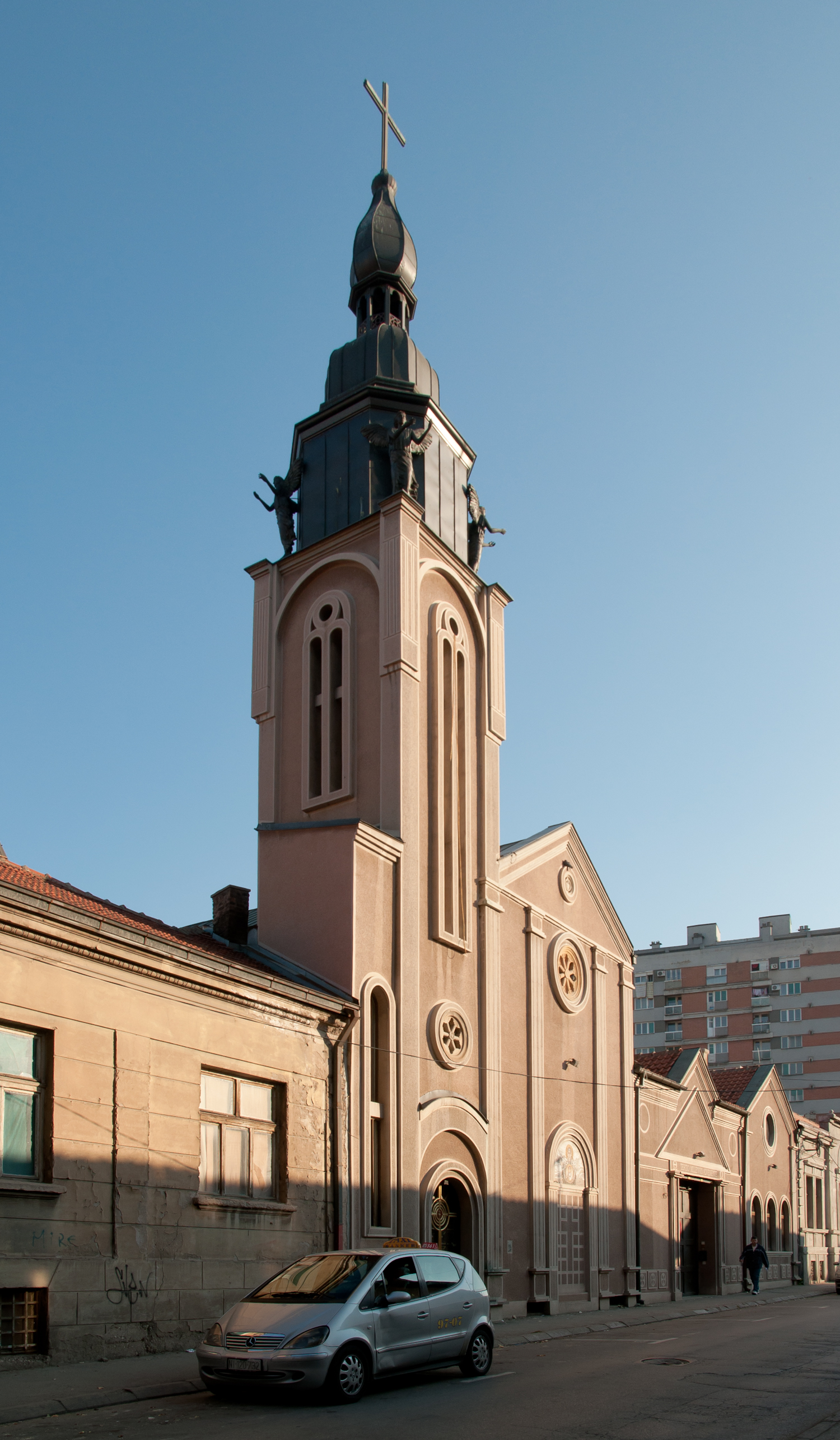 The Catholic church of the Sacred Heart in Nish, Serbia.